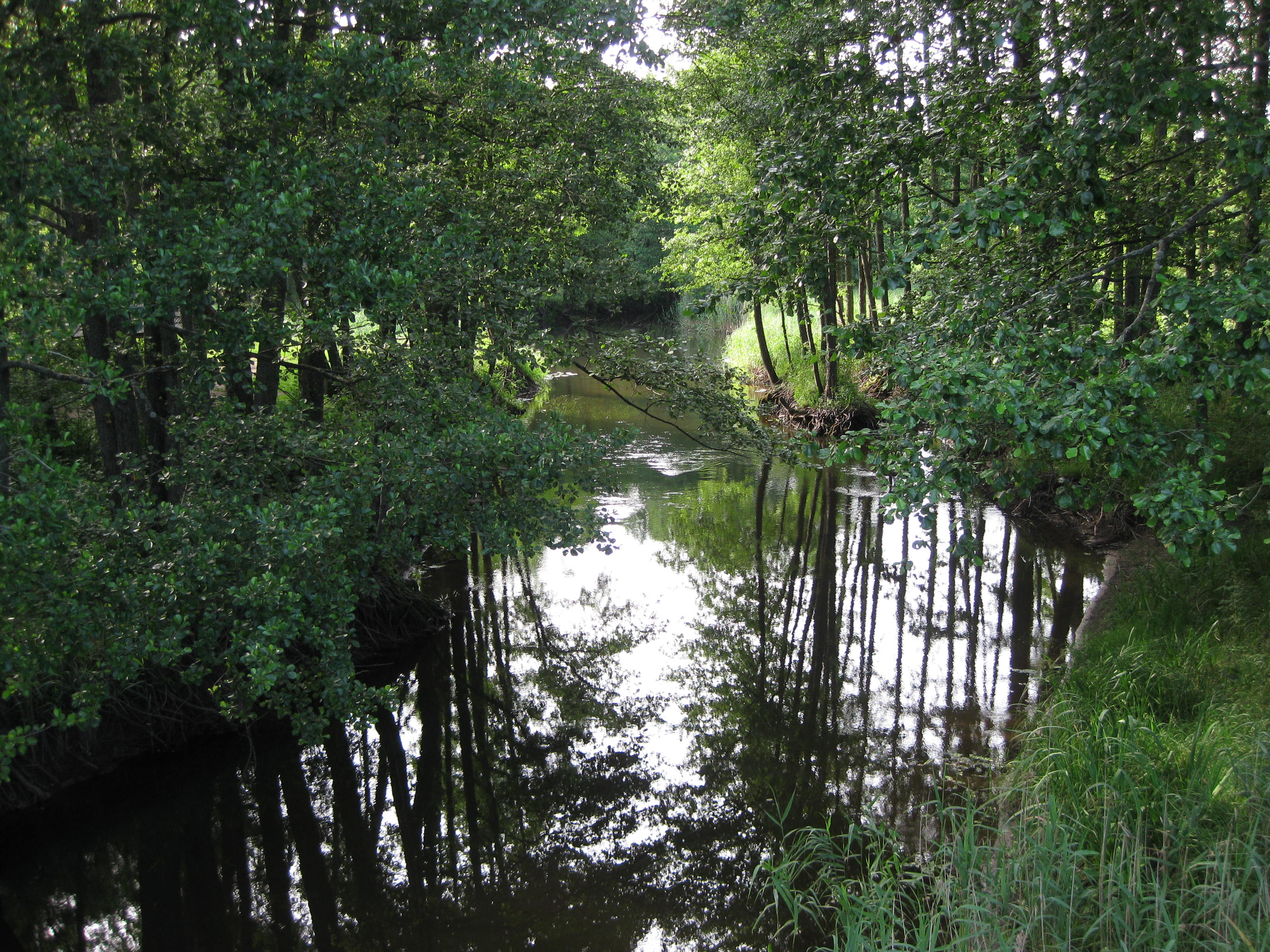 The Engure river in Latvia